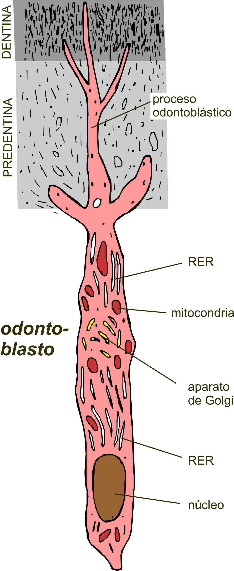 odontoblast from a rat incisor